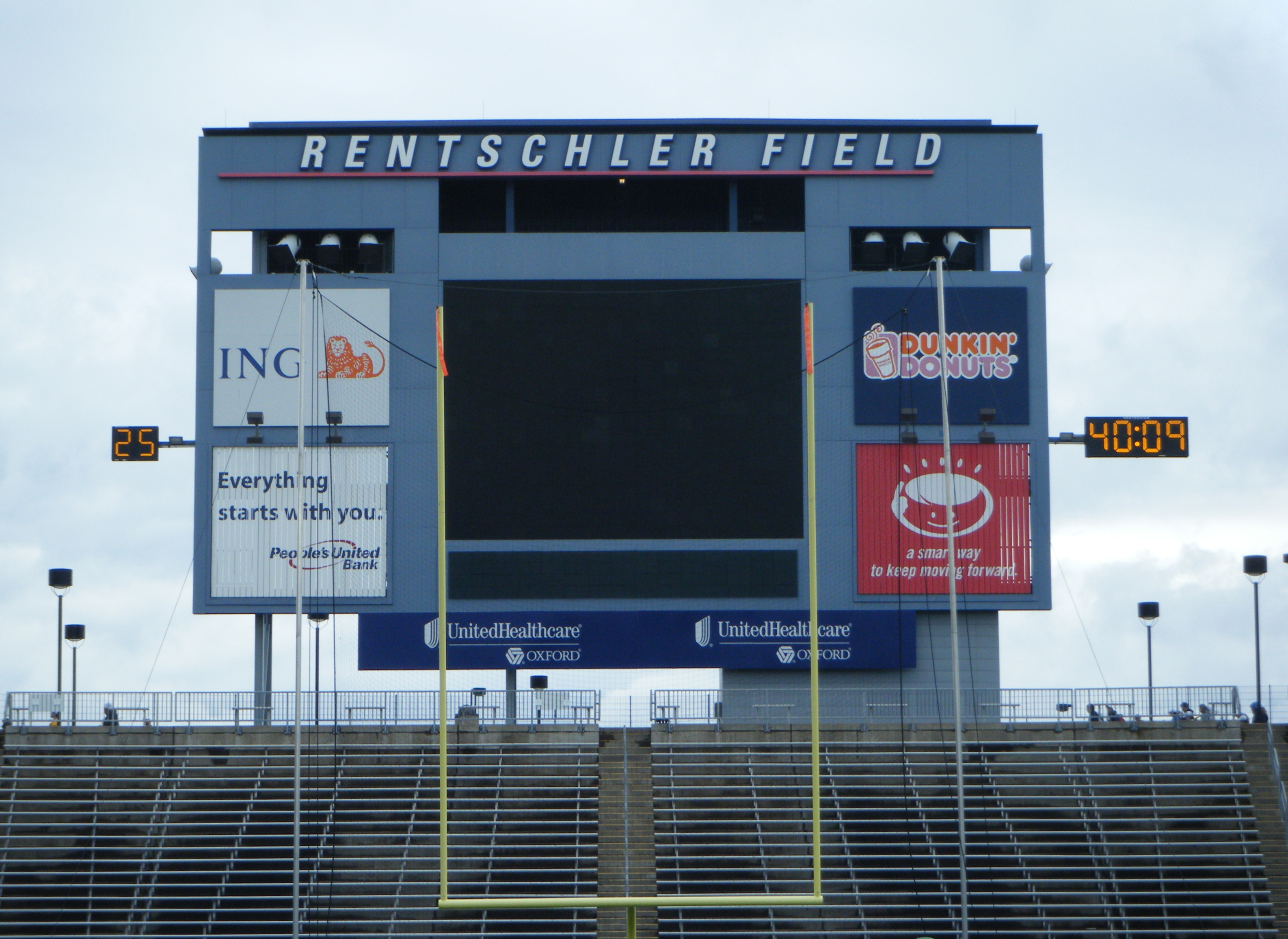 Scoreboard at Rentschler Field, home of Connecticut Huskies football.